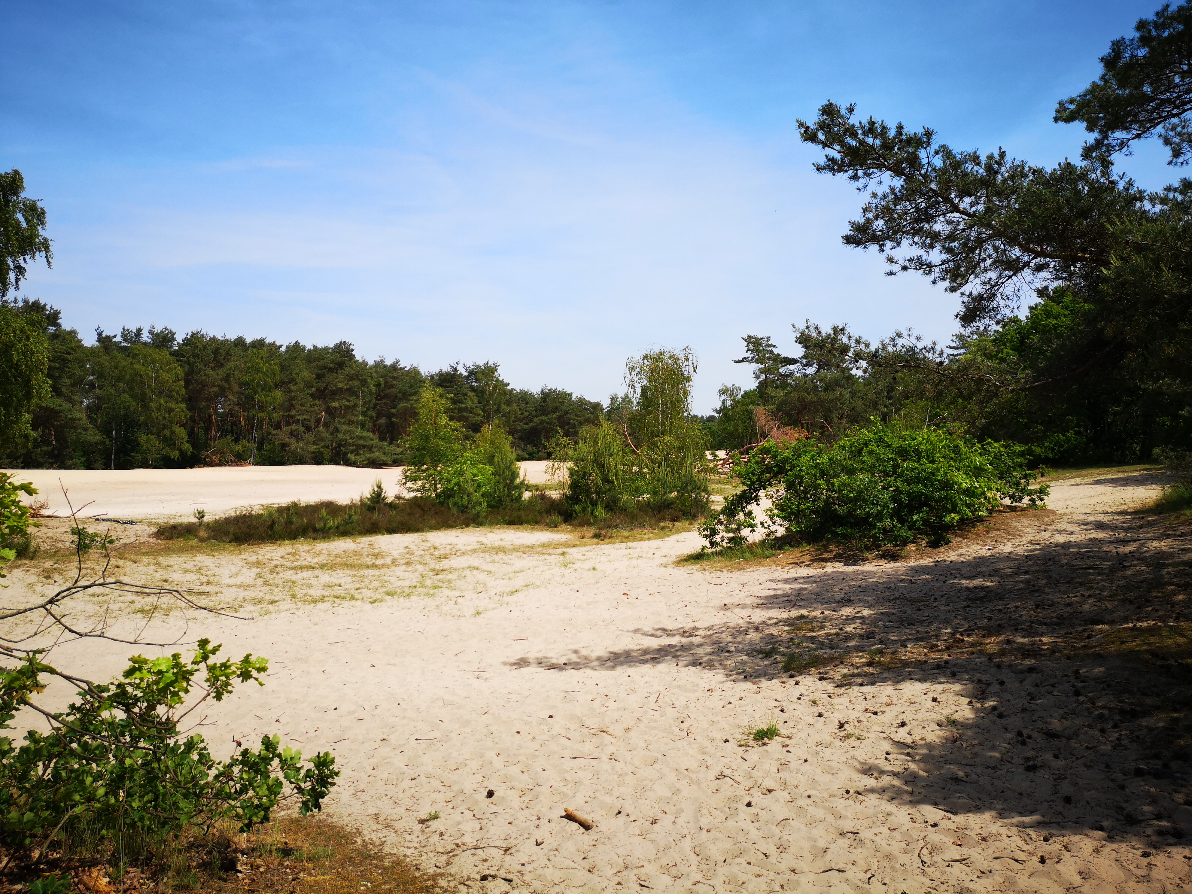 Afbeelding van de zandverstuiving in Rosmalen